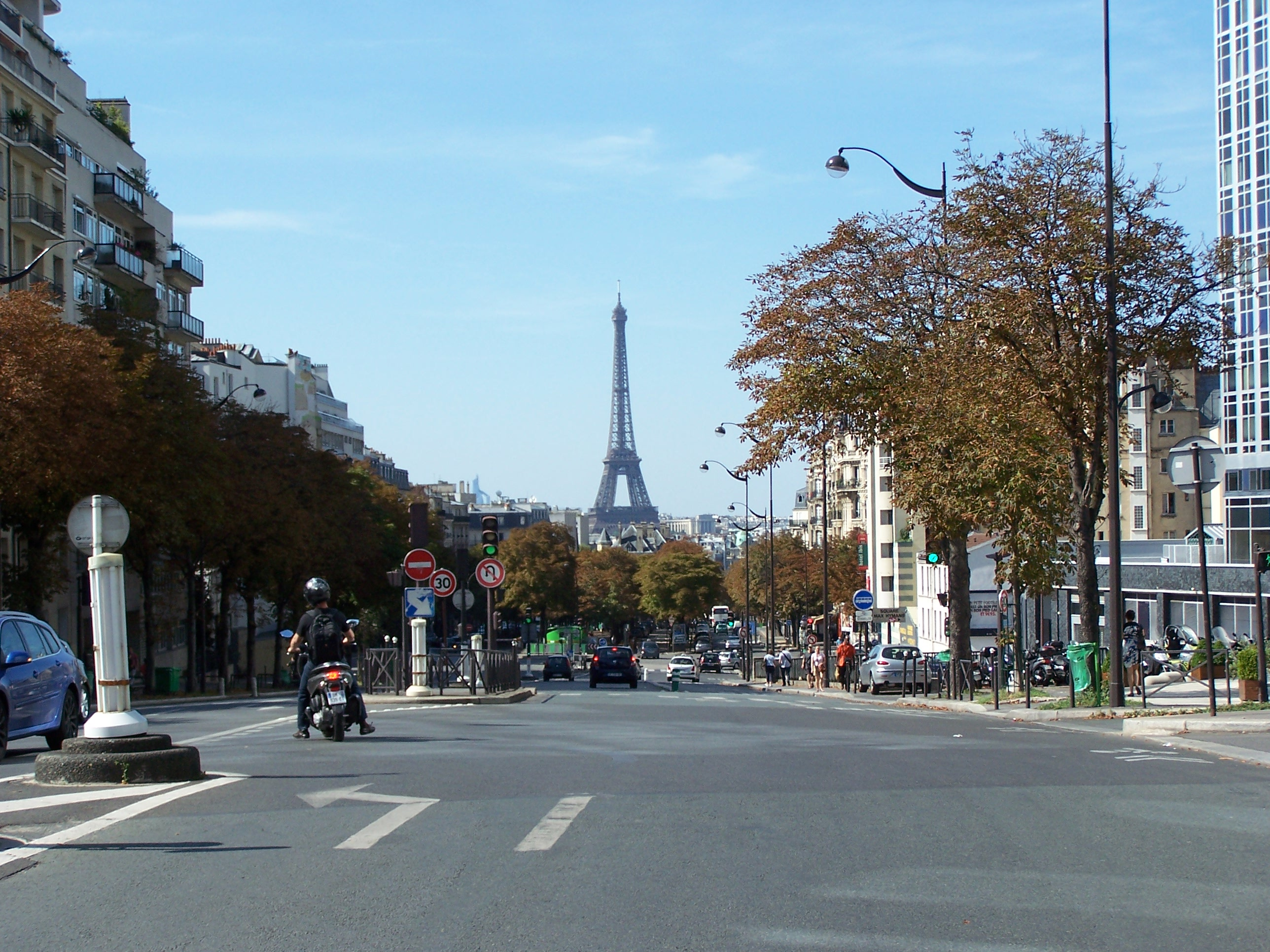 View of the boulevard and the Eiffel Tower in the background